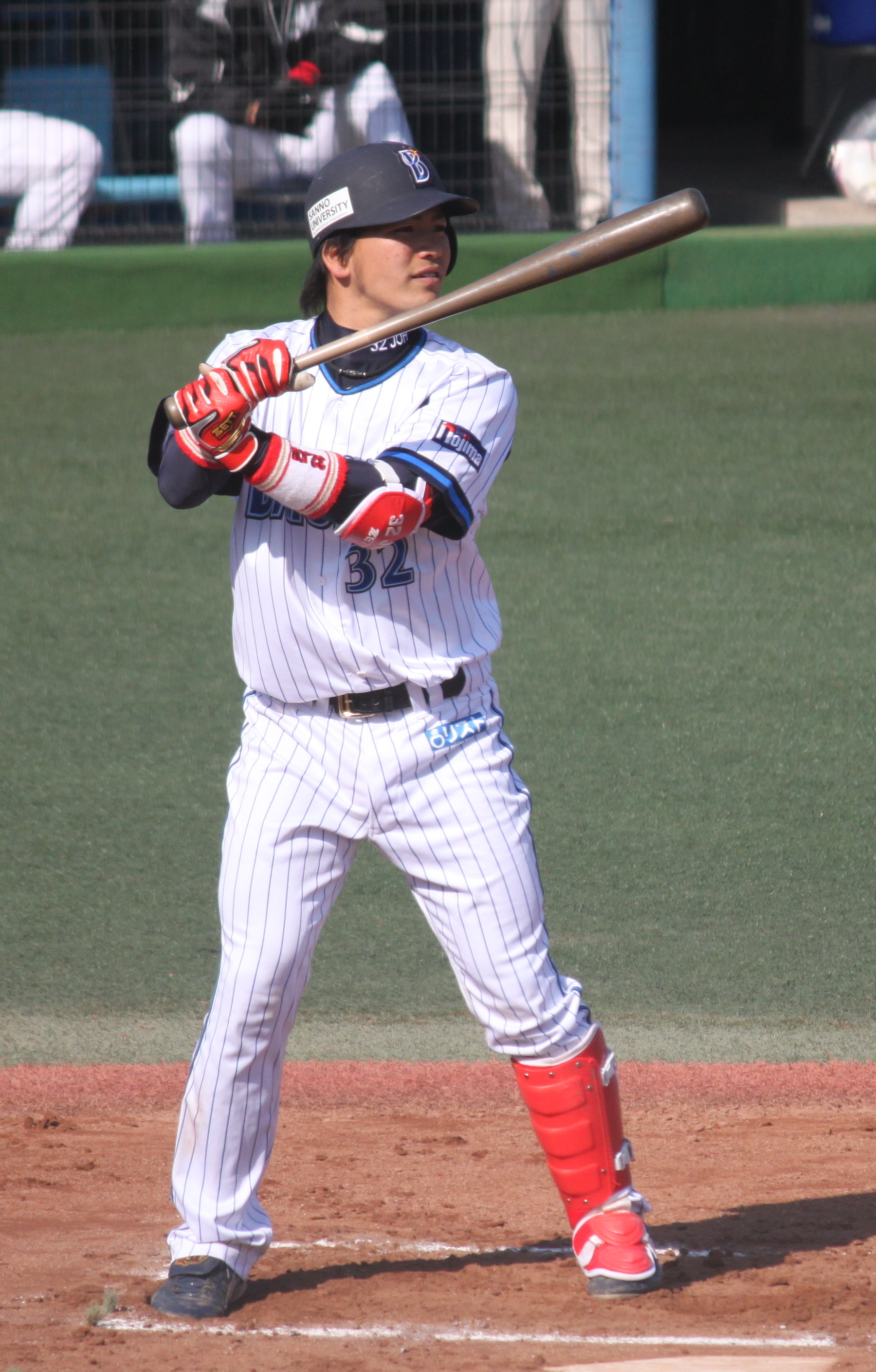 Shuto Takajo, catcher of the Yokohama DeNA BayStars, at Yokosuka Stadium.